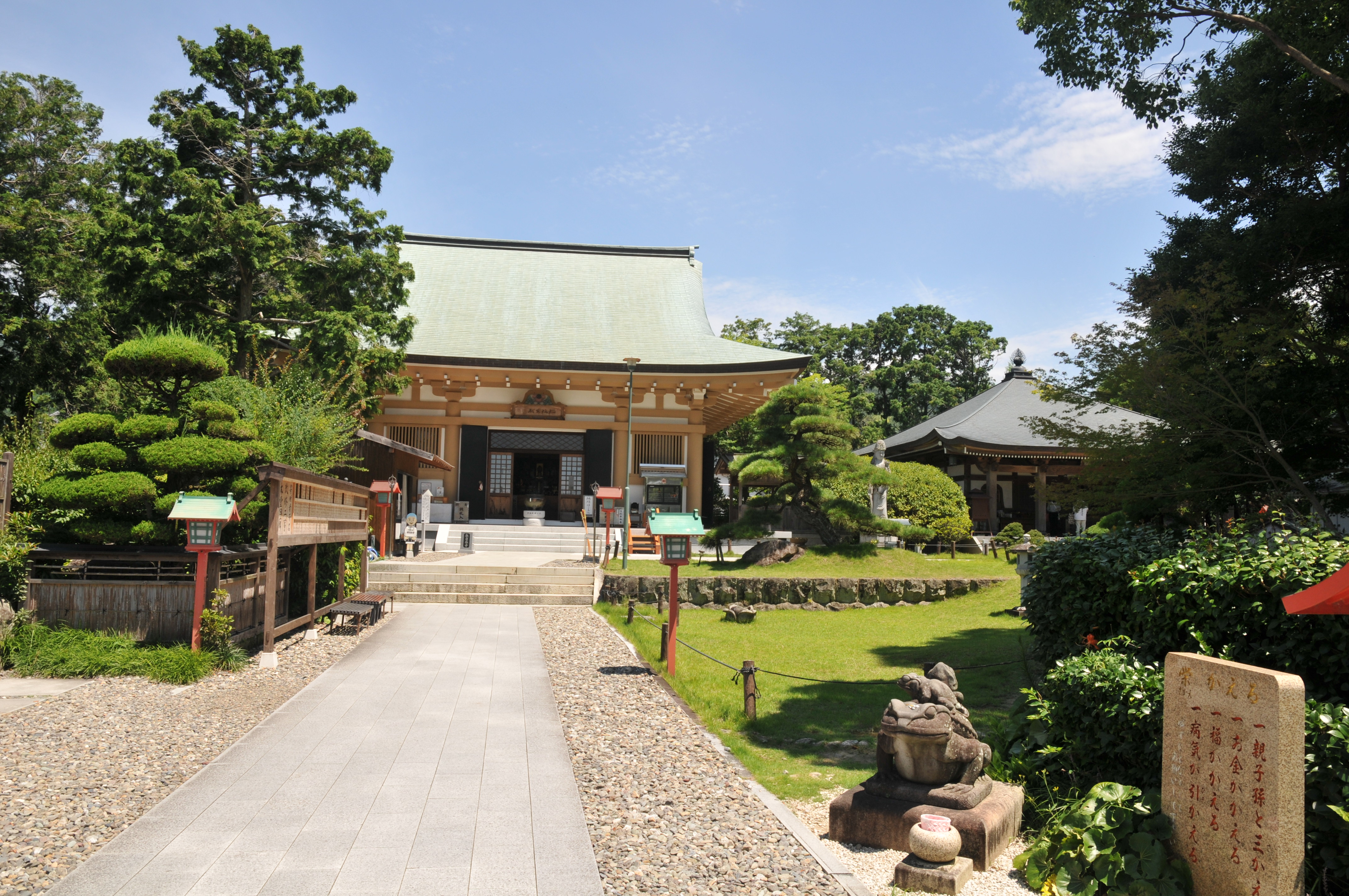 Kanjizai-ji temple